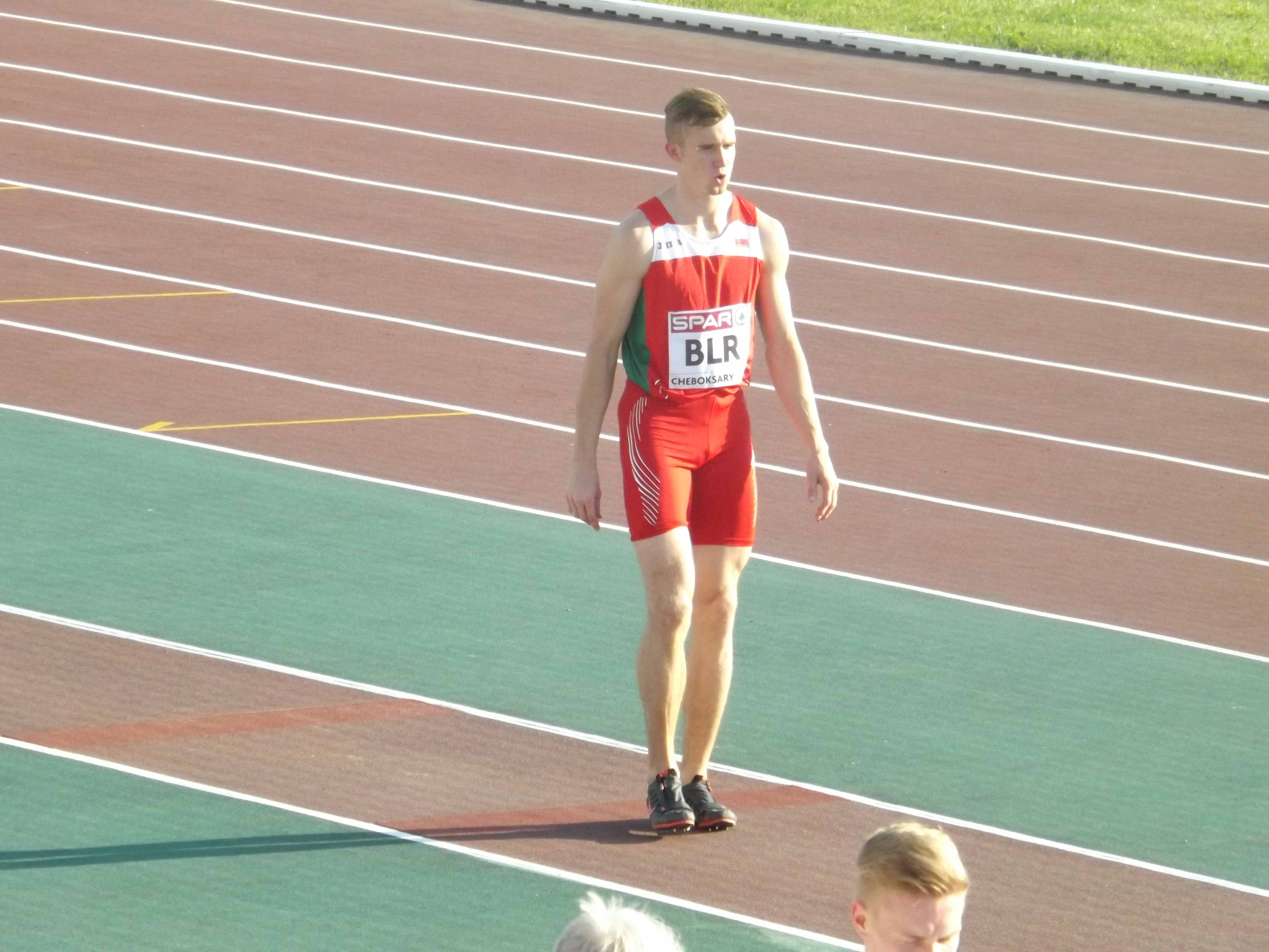 Belarusian long jumper Artyom Bondarenko during 2015 European Team Champioships